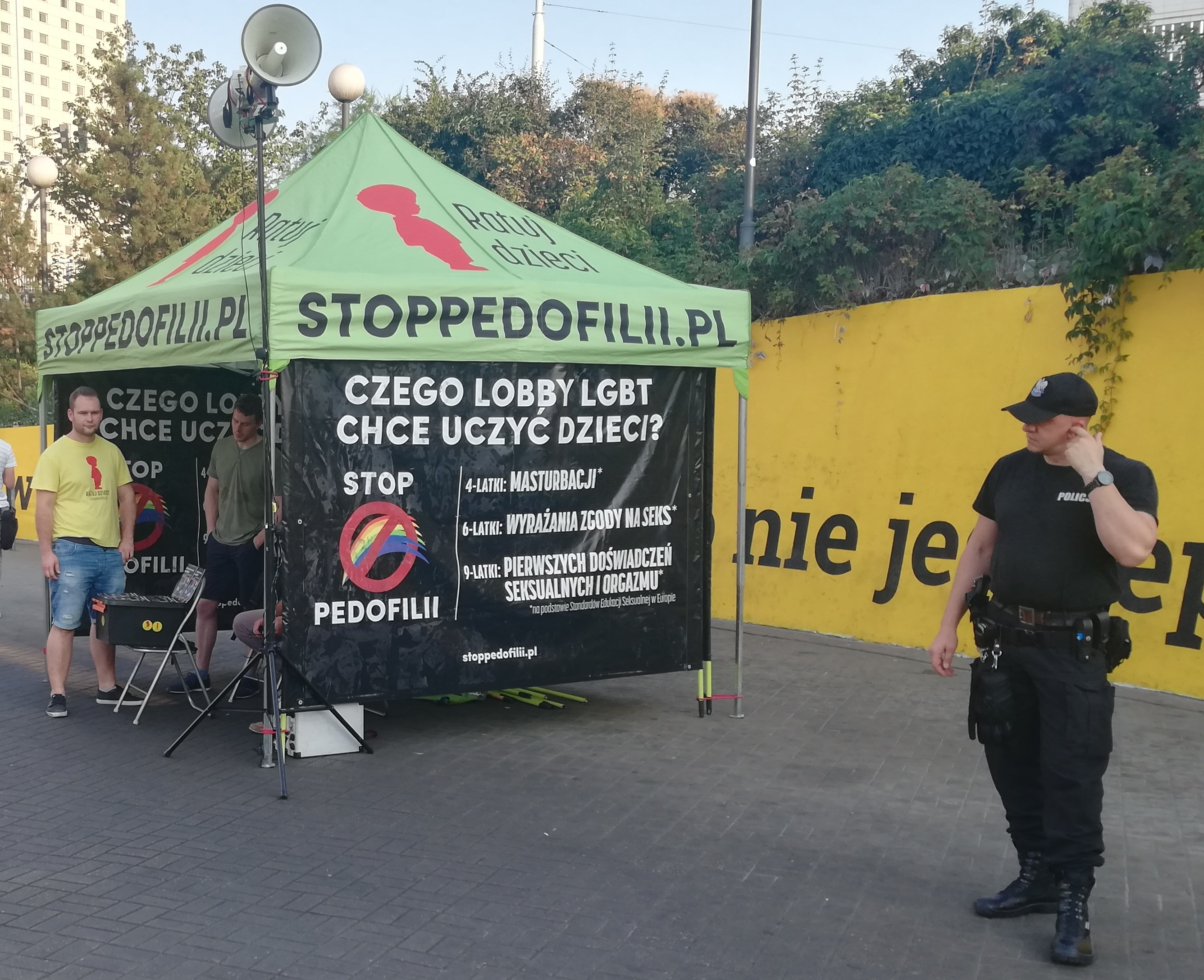 An anti-LGBT group activists confusing homosexuality with pedophilia in the centre of Warsaw, Poland